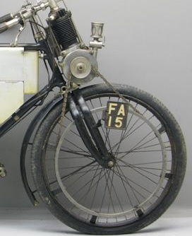 Raleigh drivebelt from 1902.